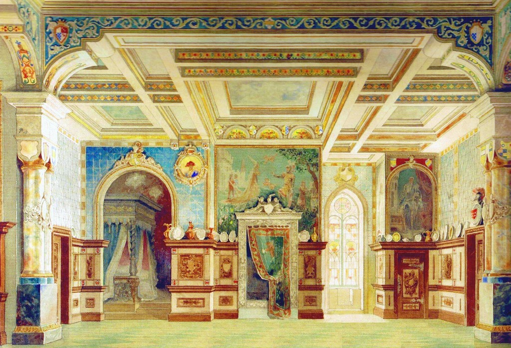 Design by Konstantin Ivanov (1859-1916) of the décor for the first tableau of act II of the ballet "Barbe-bleue" ("Bluebeard"), originally created by the choreographer Marius Petipa (1818-1910) and the composer Pyotr Schenk (1870-1915).